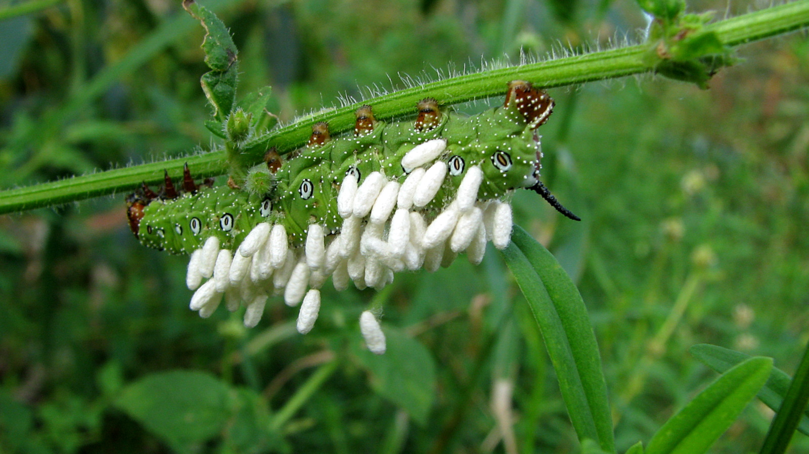 Silk cocoons of parasitoid wasps on a sphingid caterpillar